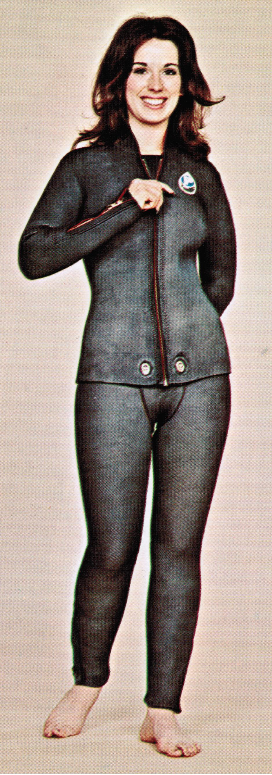 Woman wearing mid-1970s "shark-skin two" wetsuit made by Parkway Fabricators